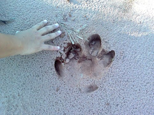 Brazilian tapir footprint in Perobas Biological Reserve, Paraná State, Brasil.